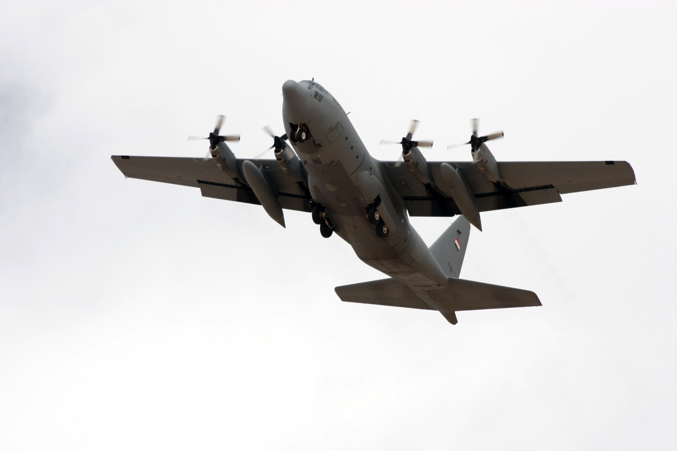 AL ASAD, Iraq -- An Iraqi Air Force C-130 cargo plane soars the Iraqi skies Feb. 24 while its crew continues to hone their flying skills. Iraq receive three C-130s from the U.S. to incorporate airlift capabilities into their air force.